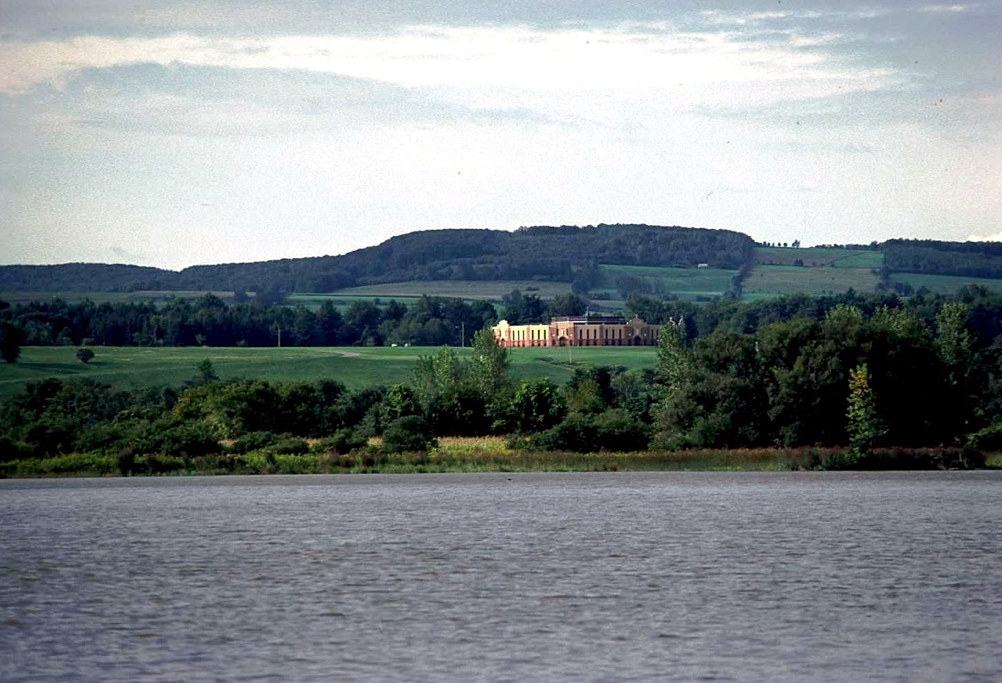 The Shrine of the North American Martyrs at Auriesville, New York seen from the Mohawk River. It was here that St. Issac Jogues and Companions were martyred for spreading the Gospel of Christ.